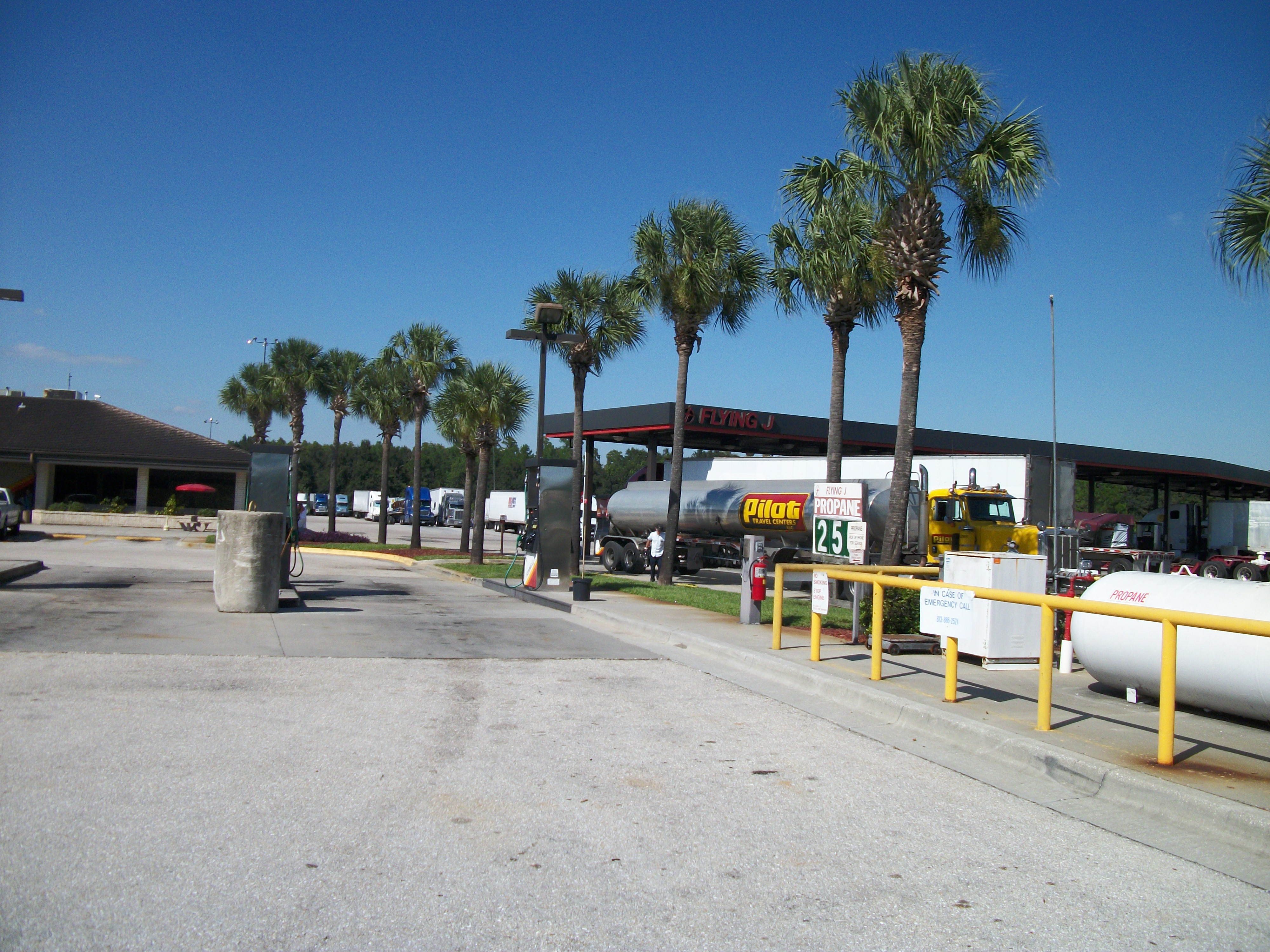 A Peterbilt, Pilot Travel Center tanker truck adding diesel fuel and being cleaned off by the driver at the Flying J Travel Plaza off the northeast corner of Florida State Road 52 and Interstate 75 in Pasco, Florida, west of San Antonio, Florida. Flying J and Pilot Travel Centers merged with each other, hence this truck. This was taken from the uncanopied area for propane, gas, and diesel fuel pumps, and was supposed to be of the separate diesel fuel pump canopy for trucks. Cars and RV's get their fuel from where I was standing at the time.